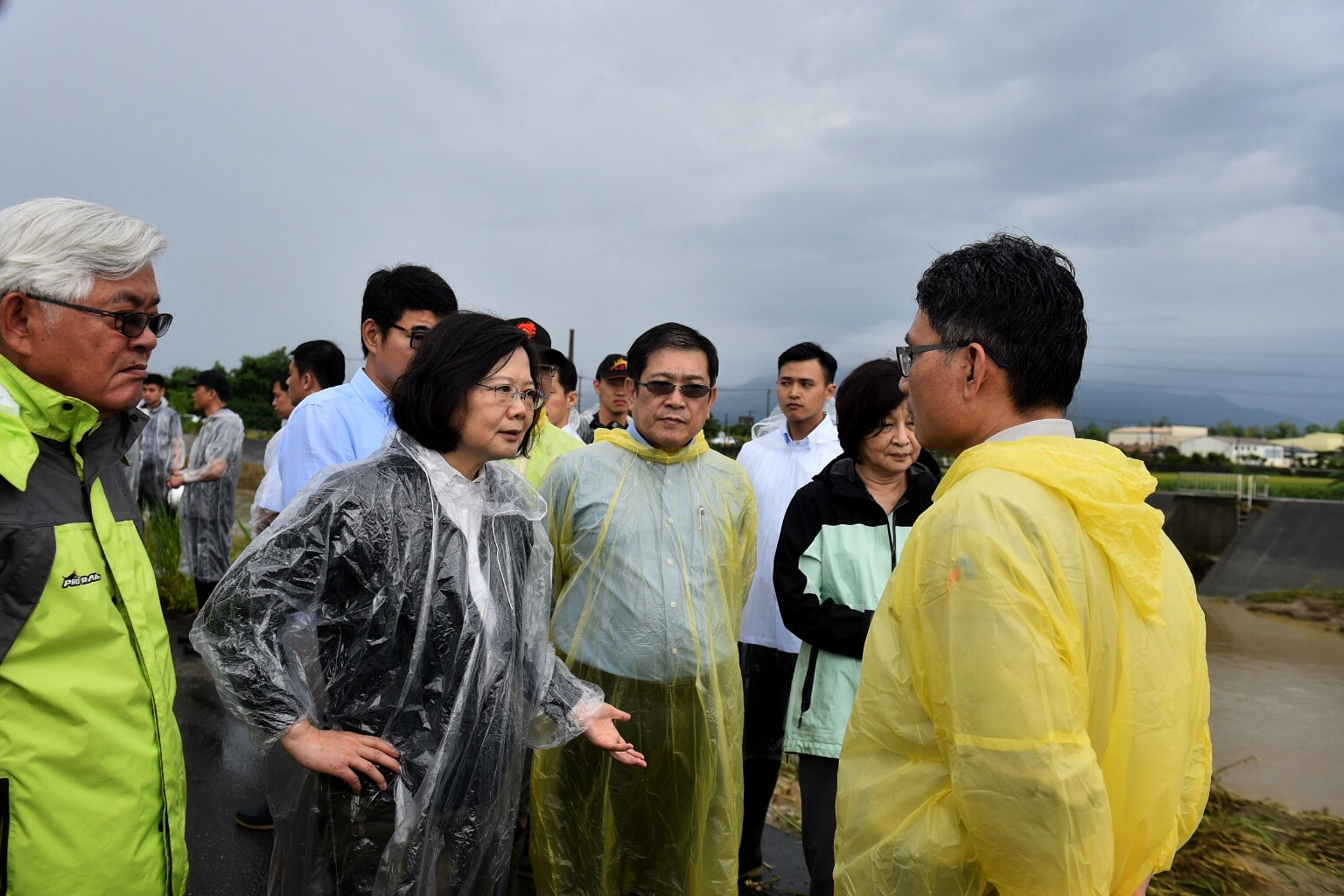 授權方式及範圍：中華民國總統府│政府網站資料開放宣告 Authorization Method & Scope: Office of the President, Republic of China (Taiwan) | Government Website Open Information Announcement